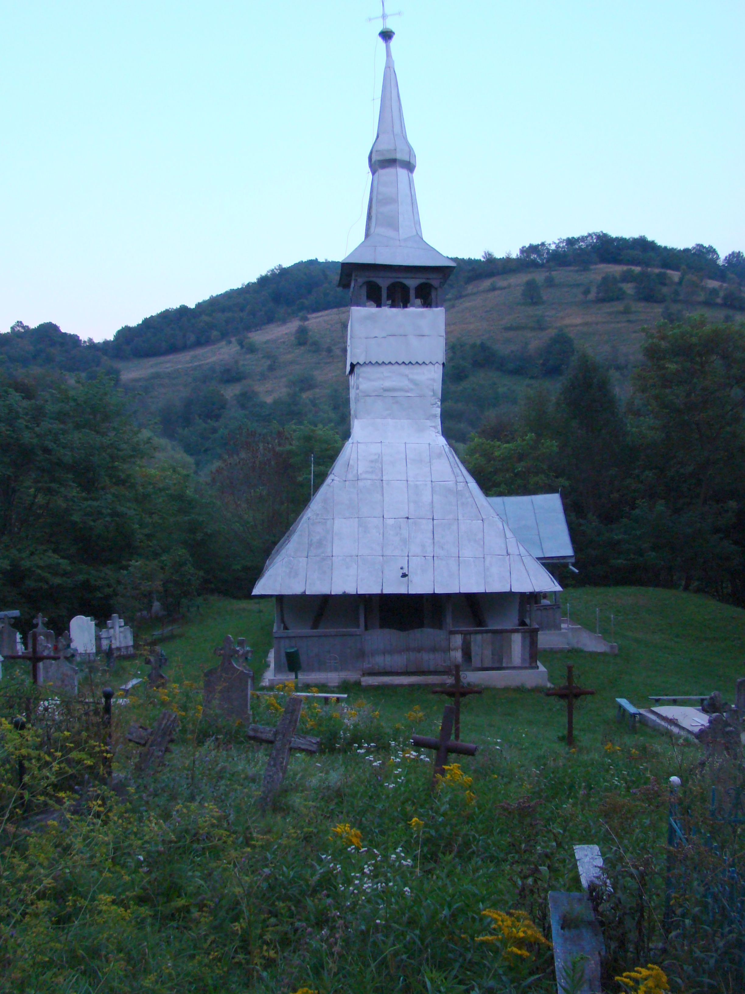 Wooden church in Peștera, Hunedoara county, Romania